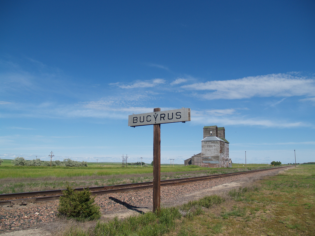 Bucyrus, North Dakota. From .